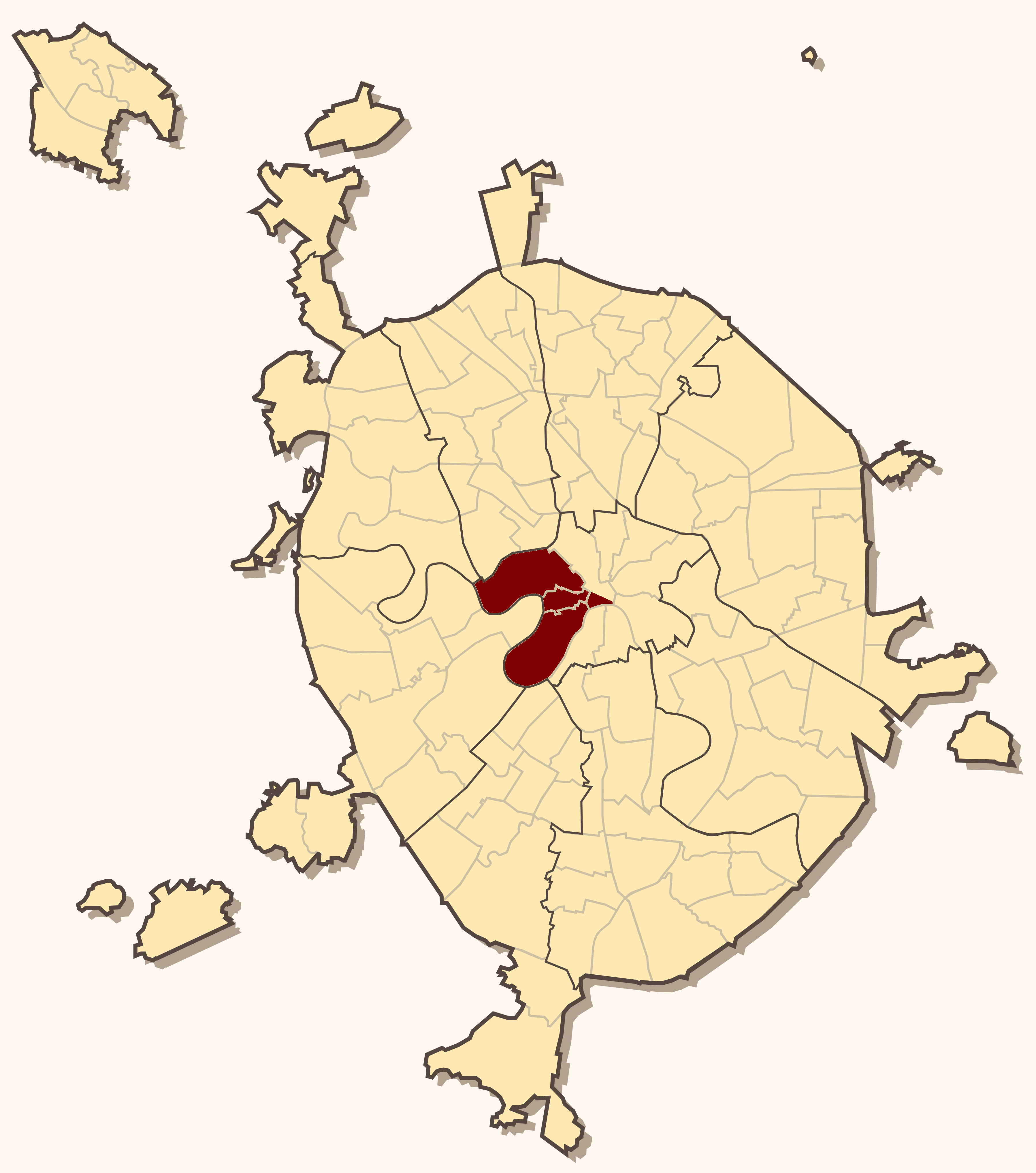 Map of Central Blogochinie of Moskow